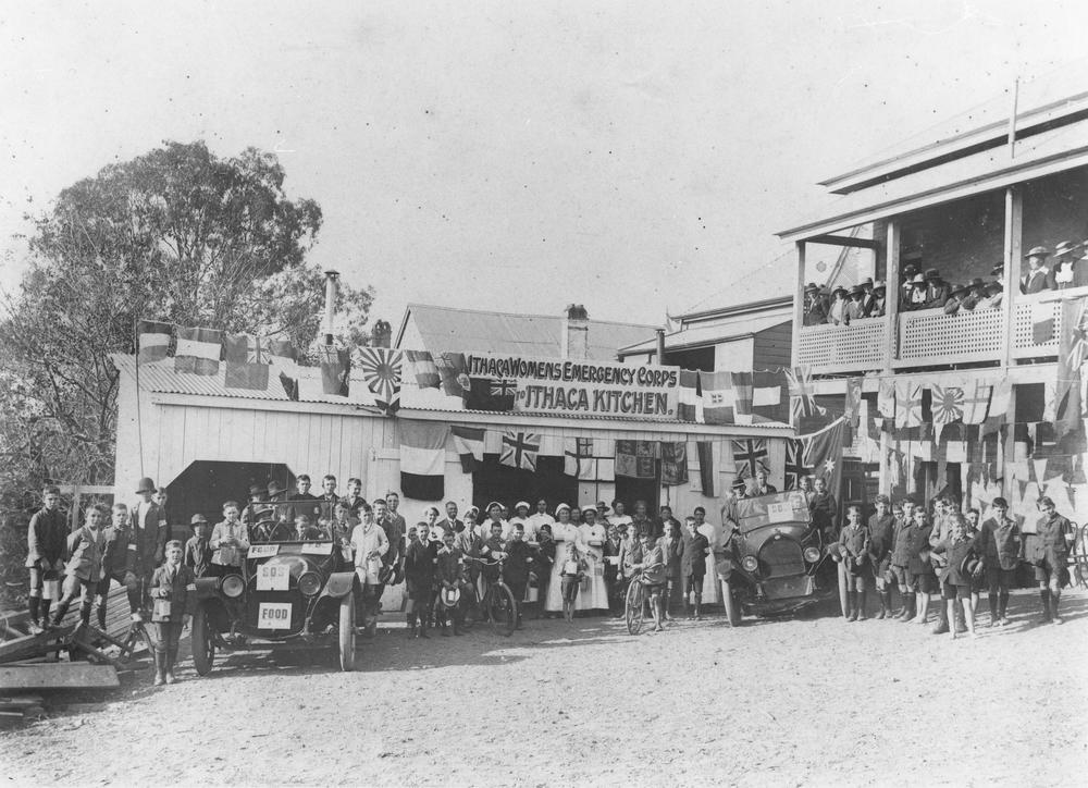 Ithaca influenza epidemic workers, July 1919. A large crowd of people who were working as volunteers during the influenza epidemic. The group includes, doctors, nurses, ladies and schoolchildren, pictured outside the Ithaca Women's Emergency Corps kitchen.